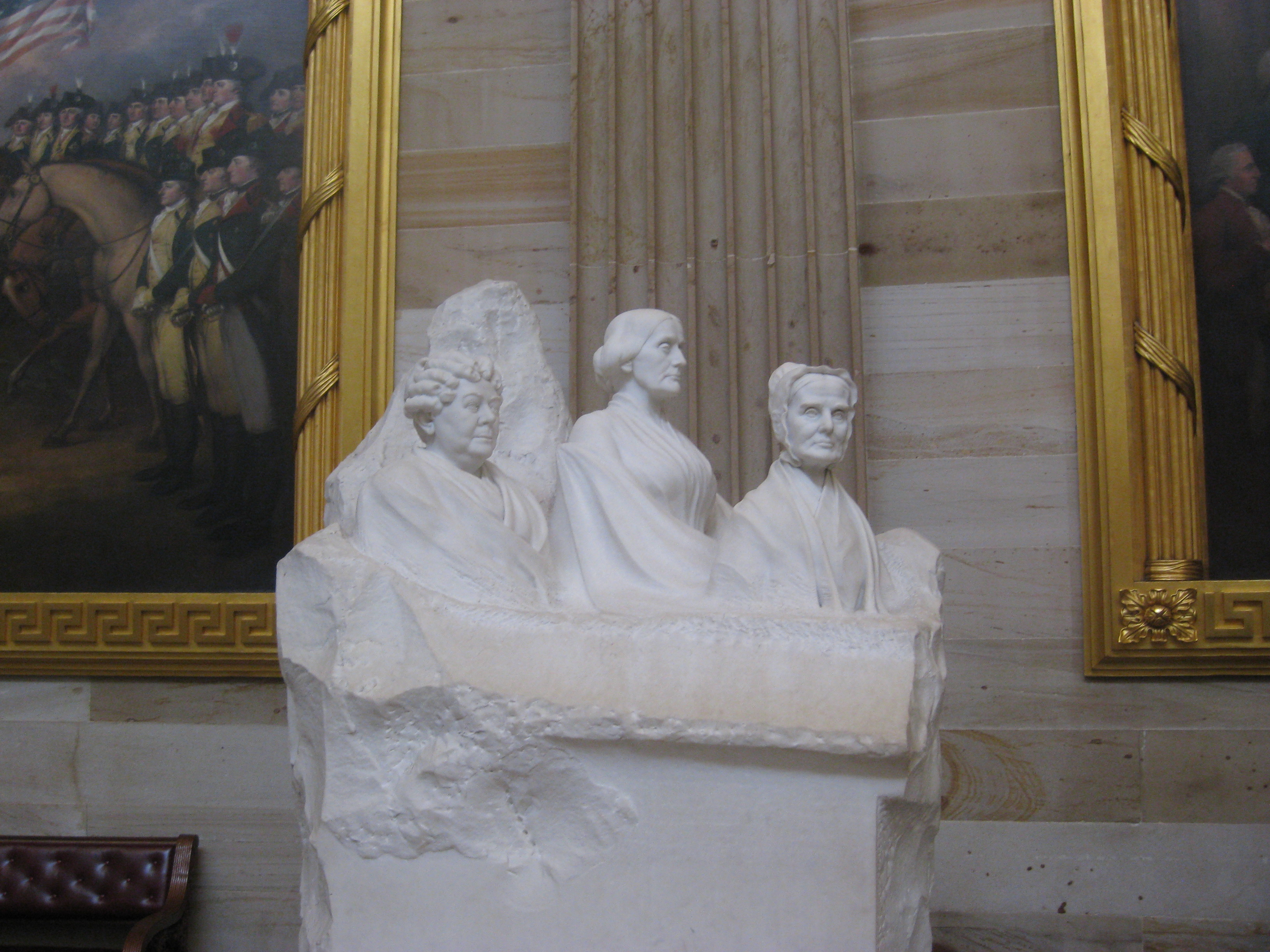 The sculpture at the U.S. Capitol Building in Washington of three leading women's rights leaders. From left to right, they are Elizabeth Cady Stanton, Susan B. Anthony and Lucretia Mott.